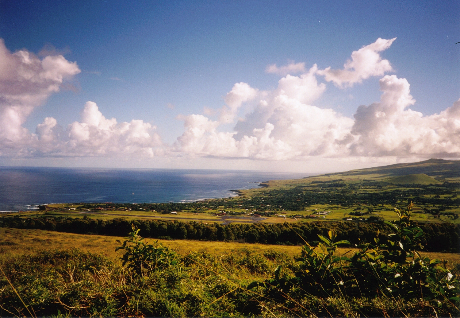 Landscape of Easter Island near Hangaroa